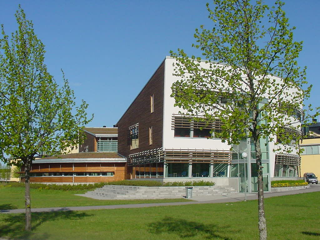 Bibliotek Gävle University (Sweden)